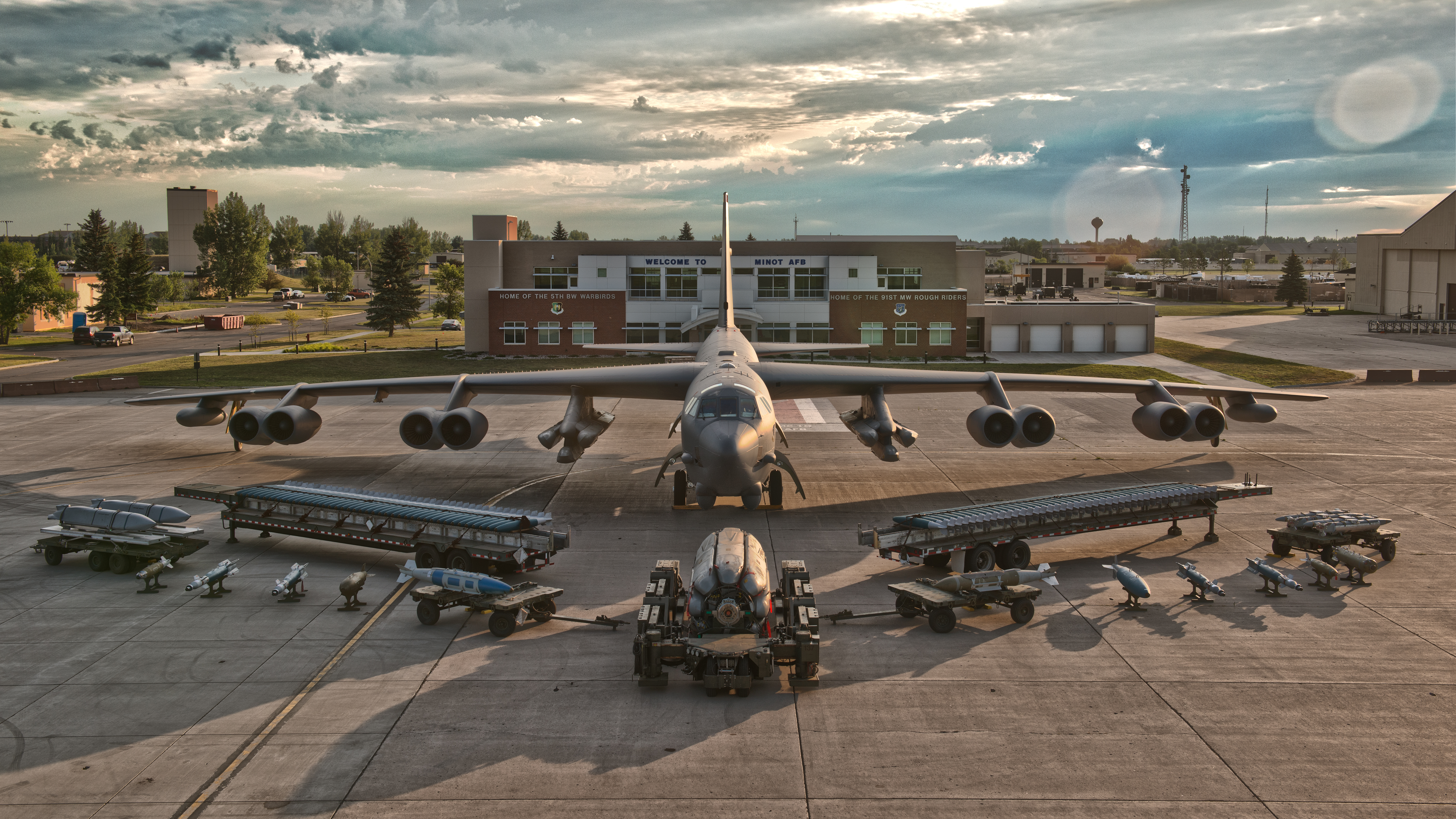 A B-52H Stratofortress and munitions are displayed in front of the Base Operations building at Minot Air Force Base, N.D., Sept. 21, 2015. The B-52 is a long-range, heavy bomber that can perform a variety of missions. The bomber is capable of flying at high subsonic speeds at altitudes up to 50,000 feet. (U.S. Air Force photo by Airman 1st Class J.T. Armstrong) Unit: 5th Bomb Wing Public Affairs DVIDS Tags: security; global strike command; nuclear; B-52; USSTRATCOM; bomber; munitions; display; minot; U.S. Strategic Command; aircraft; Military; air force; USAF; North Dakota; defense; readiness; sunrise; deterrance; Base Operations; afb; stratofortress; B-52H; Minot AFB; static; AFGSC; fire power; base ops; AGM-86/B; Air-Launched Cruise Missiles; bomber airmen